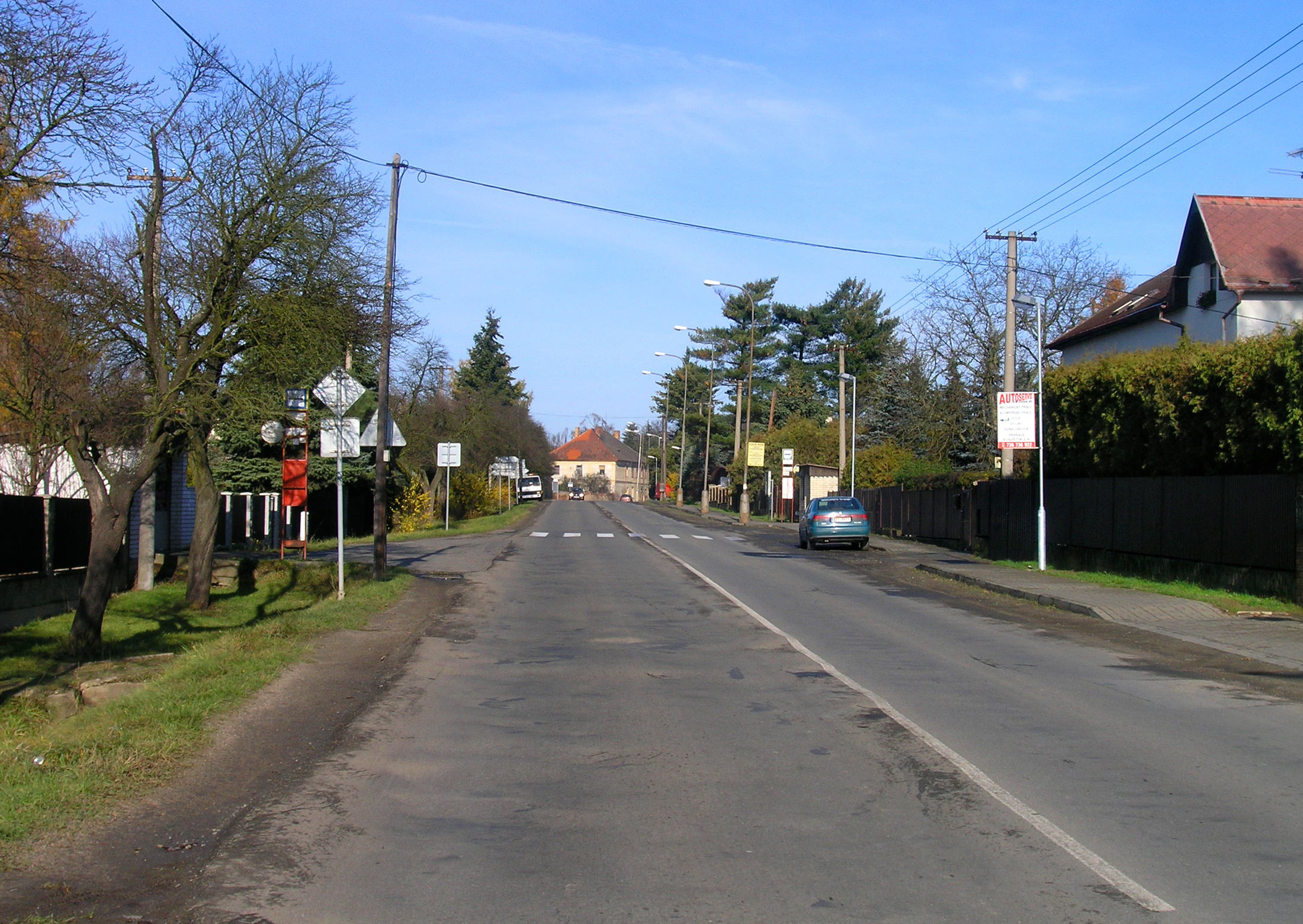 Road to Prague in Želivec, part of Sulice village, Czech Republic